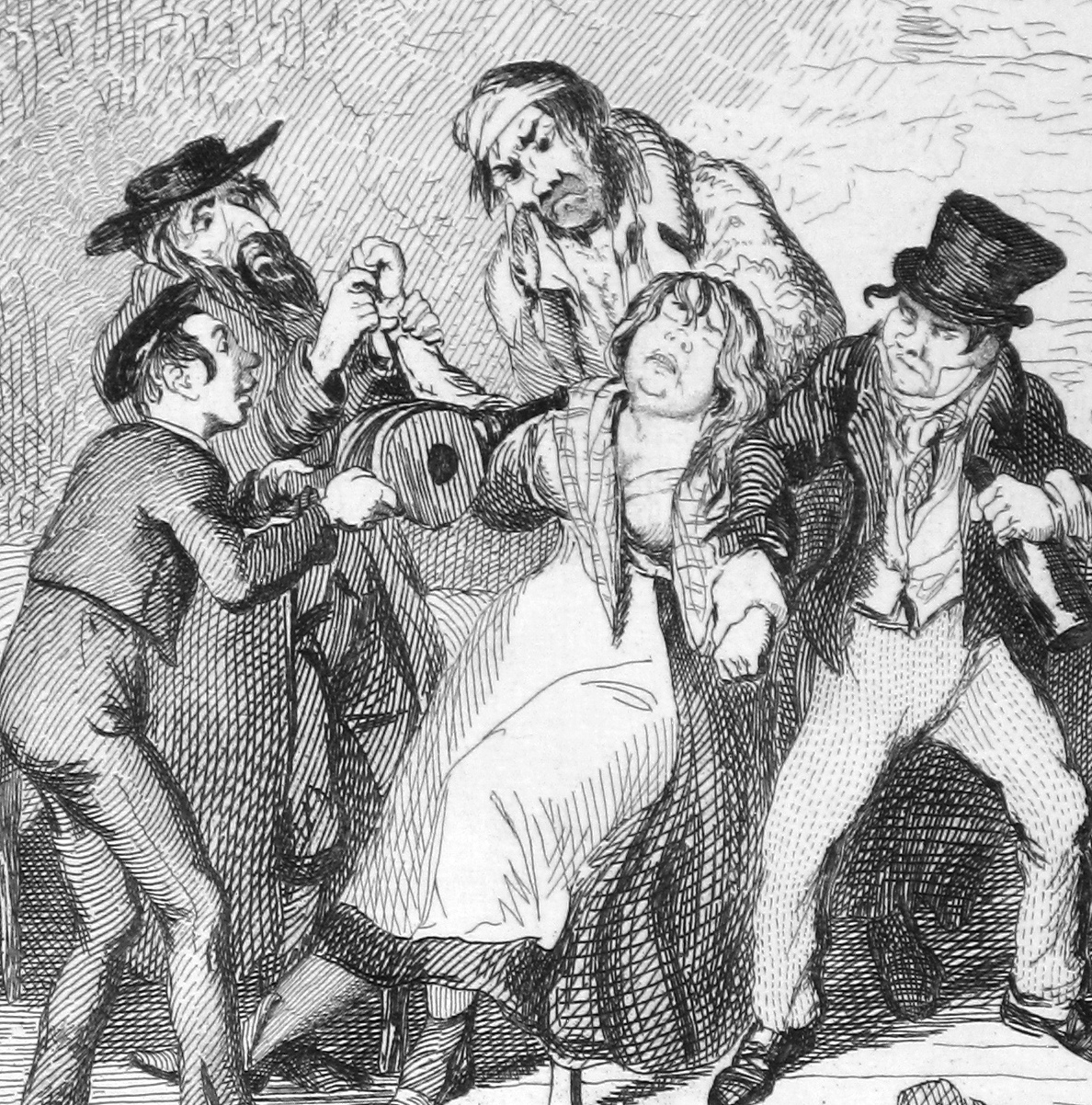 Nancy swooning, from Oliver Twist